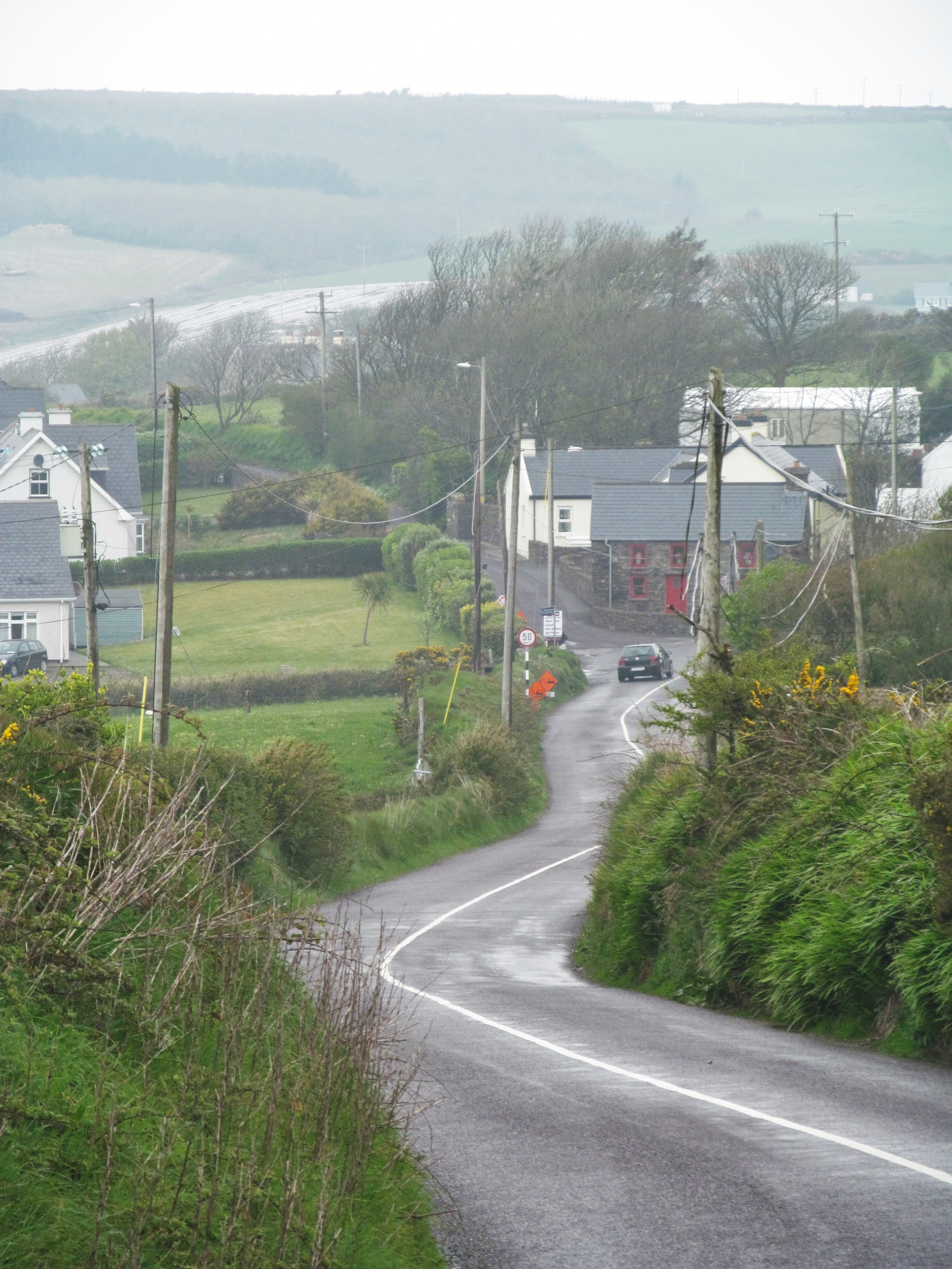 Damp day in West Cork